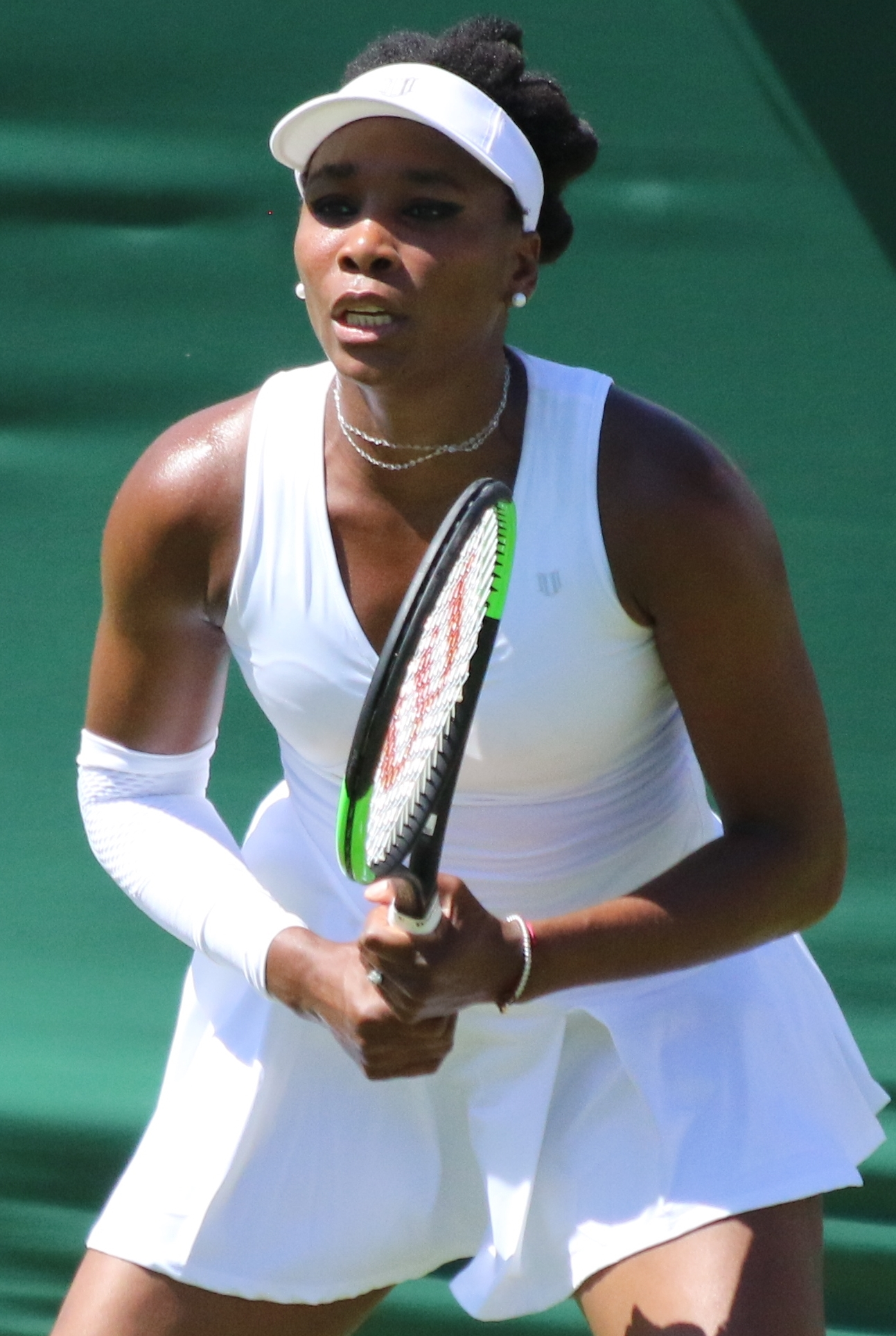 Williams V. WM18 (66)